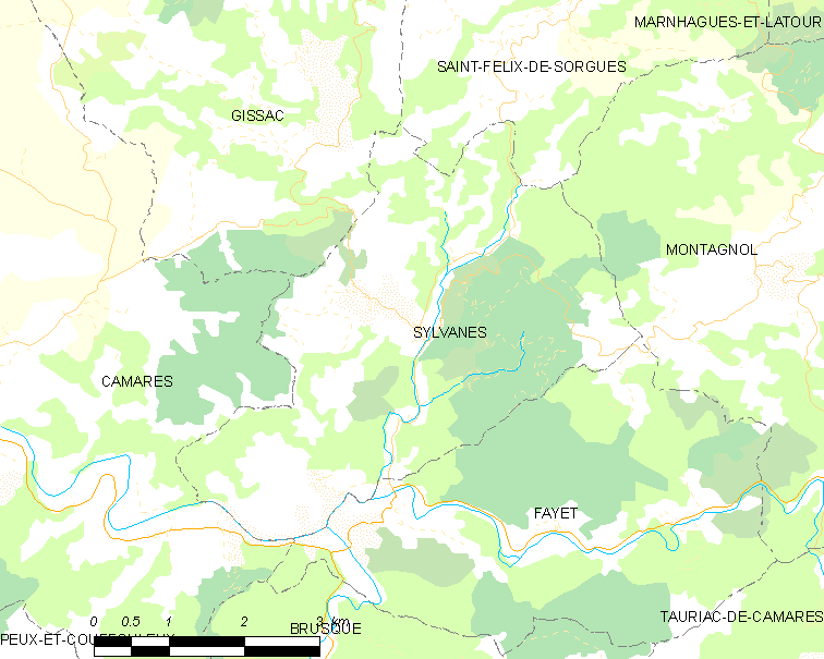 Map commune FR insee code 12274.png - Sylvanès